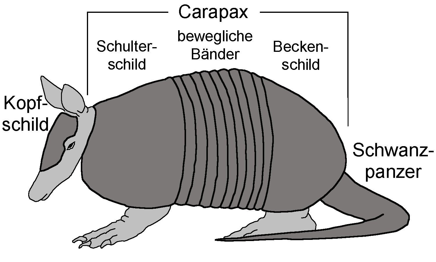 Illustration of the dermal armor of an armadillo, after Martín Ricardo Ciancio, Alfredo A. Carlini, Kenneth E. Campbell and Gustavo J. Scillato-Yané: New Palaeogene cingulates (Mammalia, Xenarthra) from Santa Rosa, Perú and their importance in the context of South American faunas Journal of Systematik Palaeontology 11 (5-6), 2013, pp. 727-741 (p. 731)